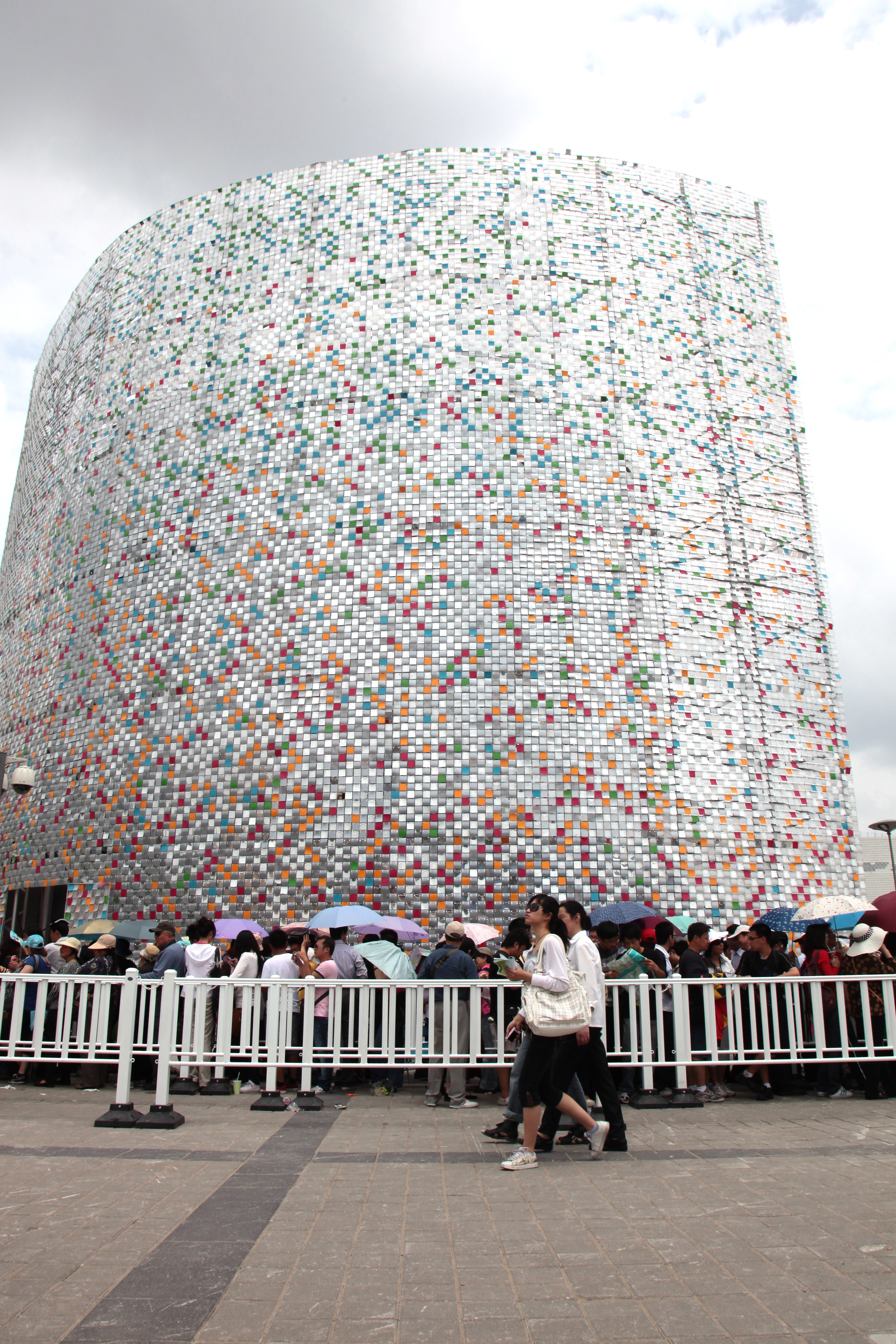 Latvia Expo Pavilion 2010, Shanghai, China